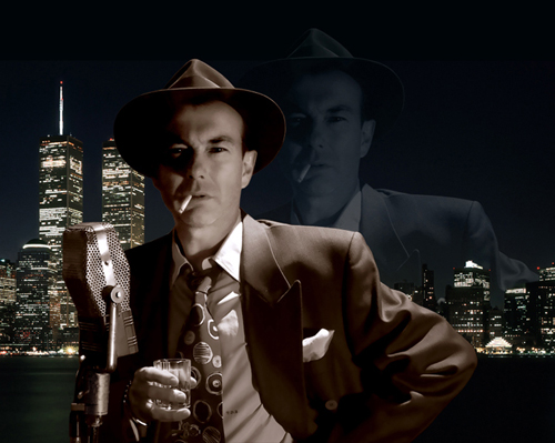 Thomas Dellert as Tommy D a Crooner